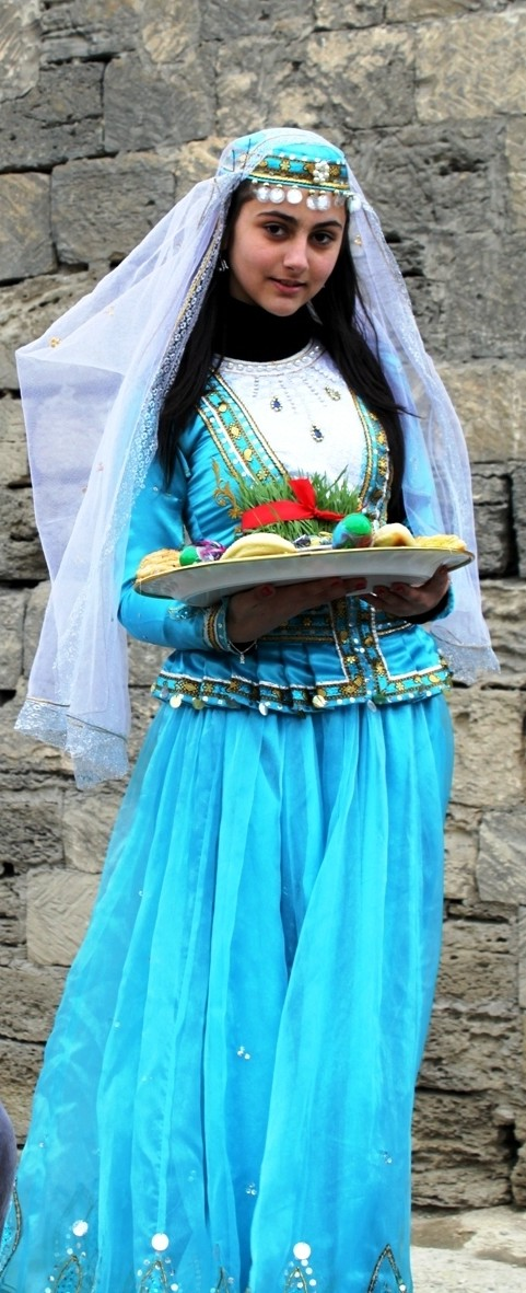 An Azeri girl wearing national costume celebrating Nowruz in Baku, Azerbaijan.